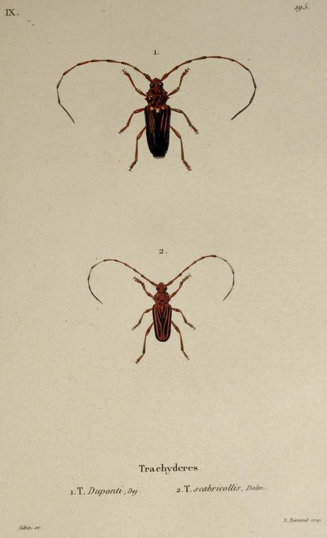 Trachyderes duponti Fig 1 Drychateres bilineatus = Syn Trachyderes scabricollis Fig 2